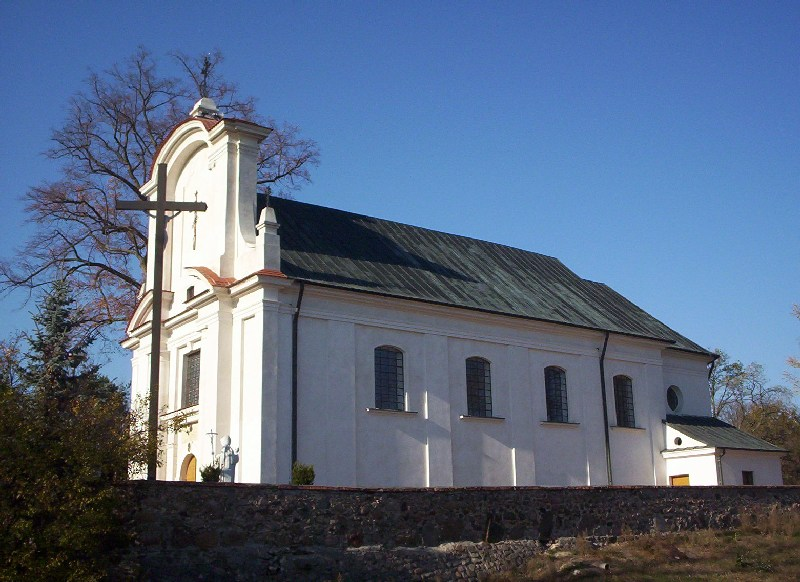 Exaltation of the Holy Cross church in Jeruzal, eastern part of Łódź Voivodship, Poland.